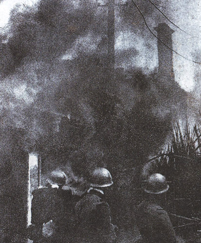 Japanese troops burning residential districts in the Battle of Shanghai (1932)